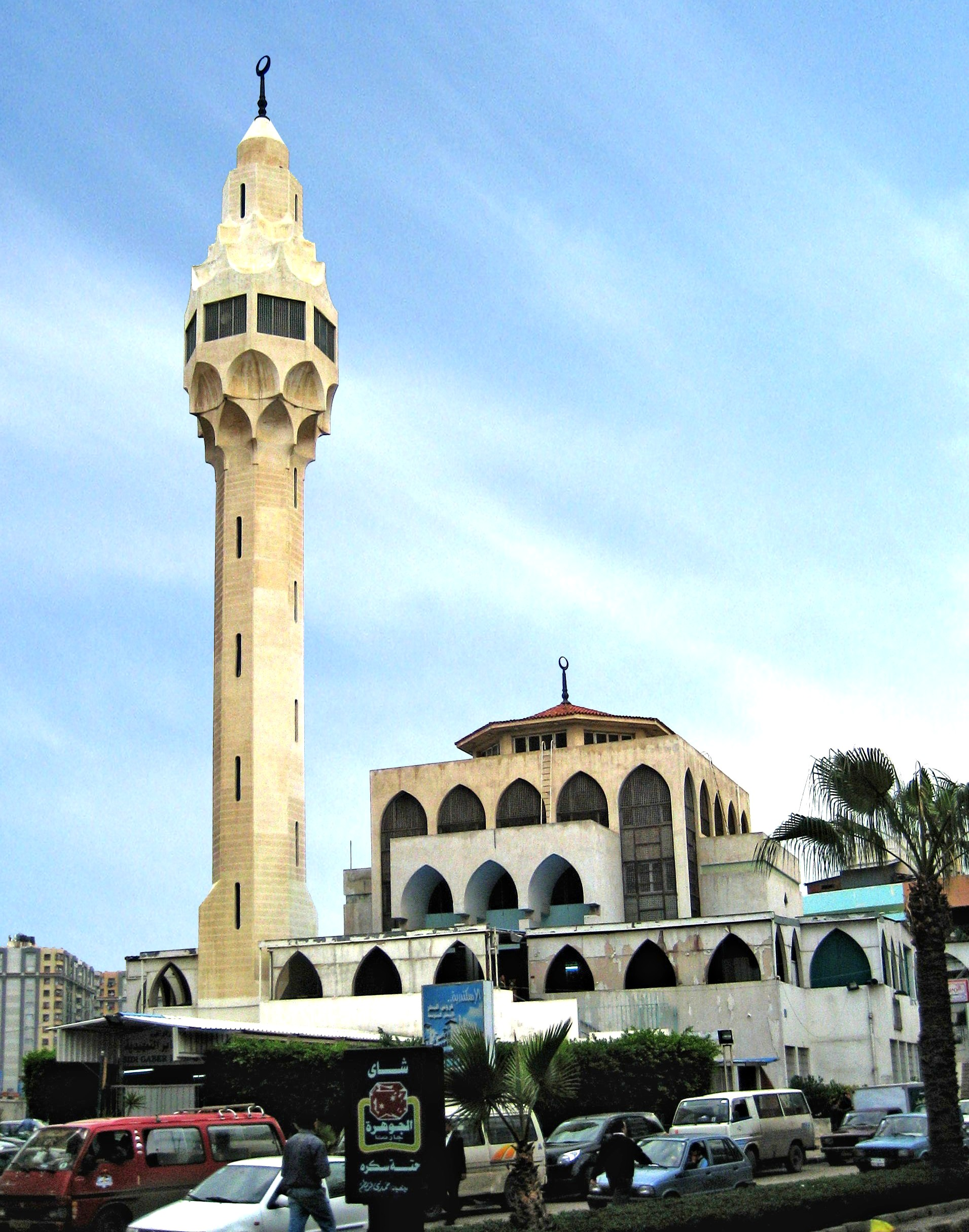 جامع حاتم- واحد من المساجد الحديثة بمنطقة سموحة بالإسكندرية Hatem Mosque is one of the modern mosques at Smoha district in Alexandria